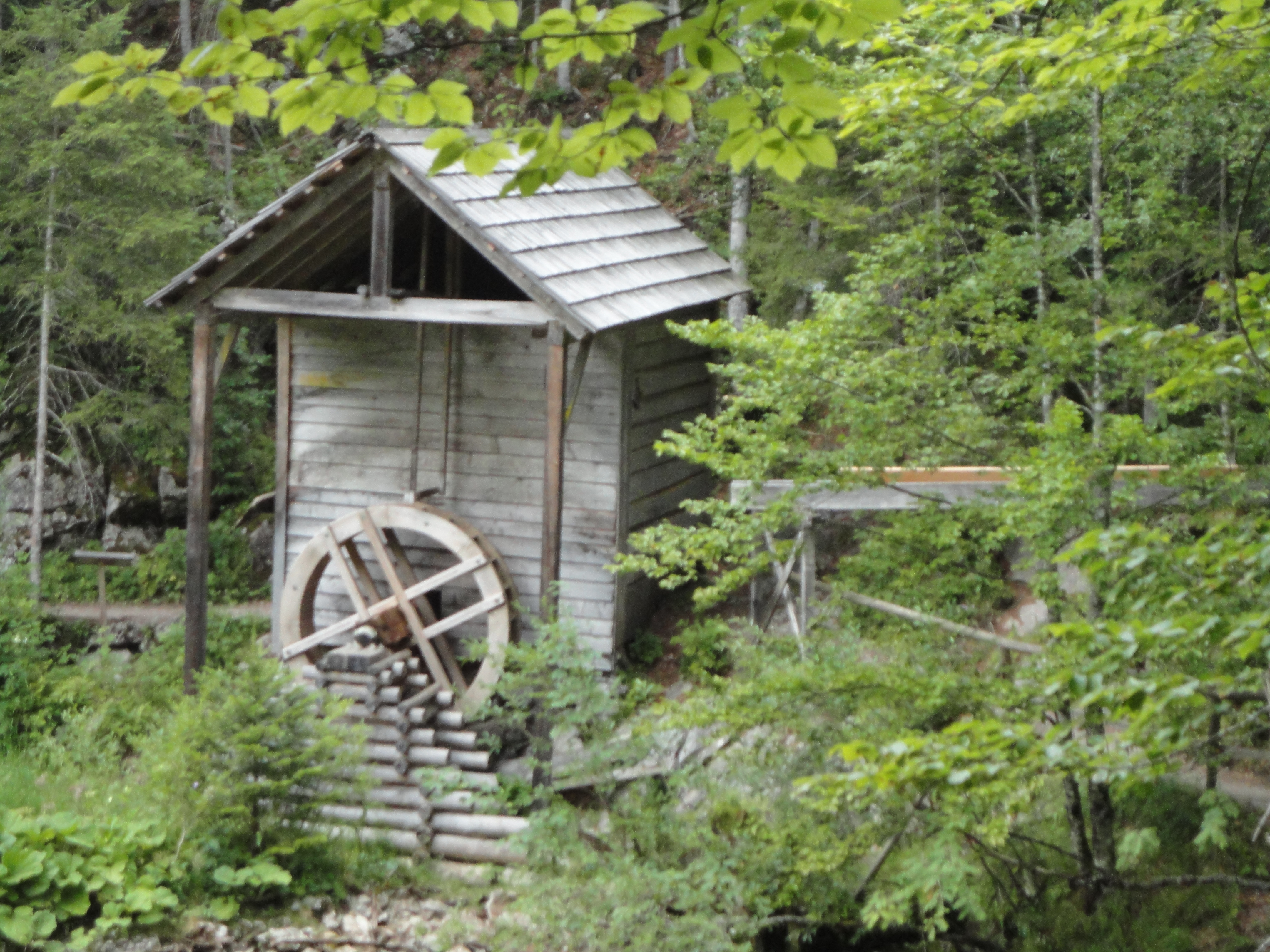 Watermill in Styria